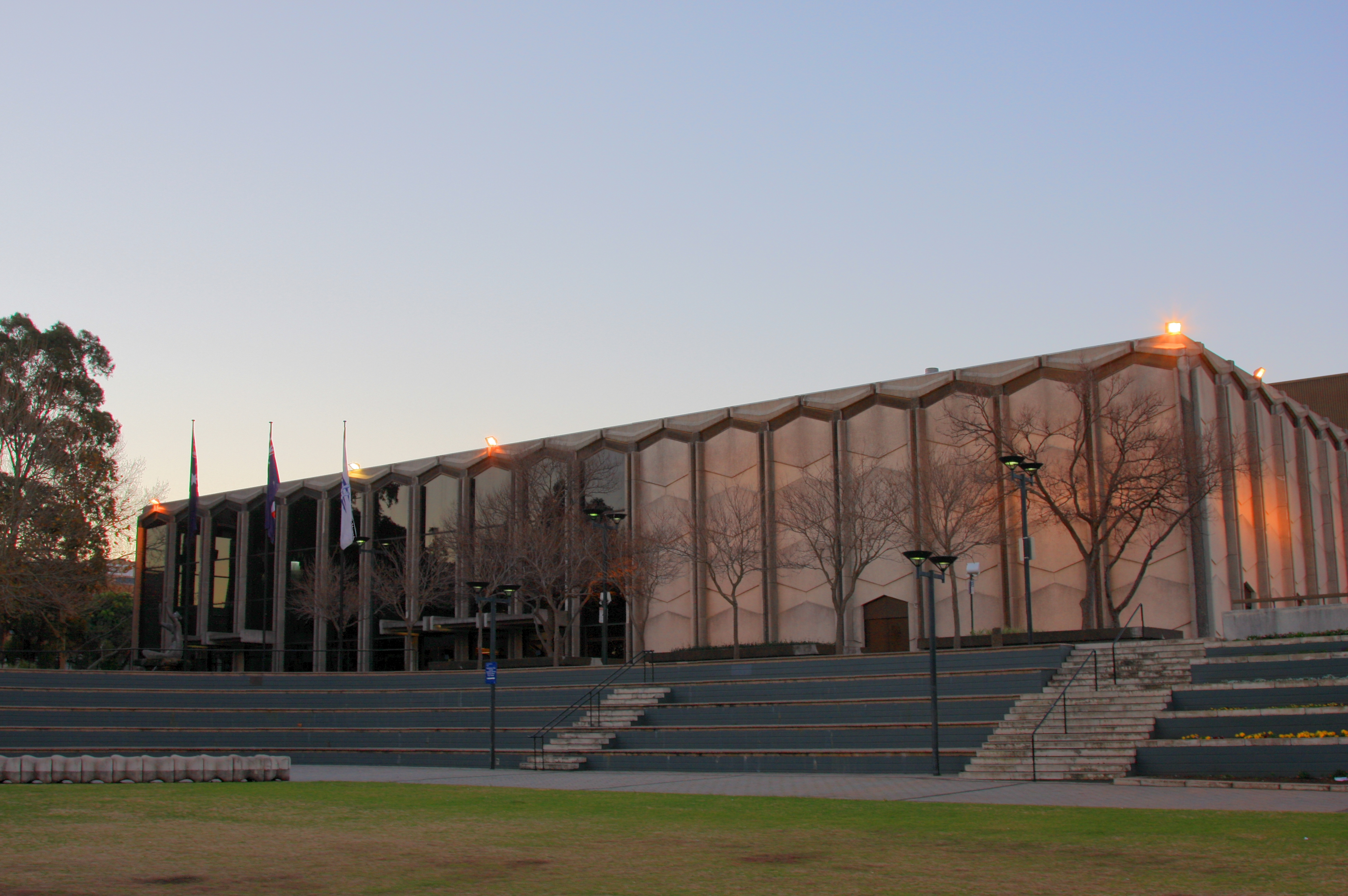 Bankstown Town Hall